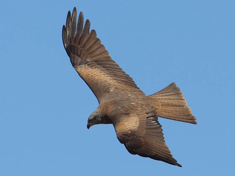 Image shows a Black Kite